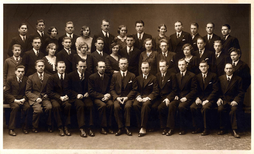 Roman Tavast employees in 1933